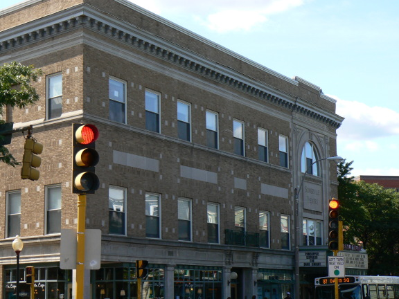 This is a photograph of the Somerville Theater in Somerville, Massachusetts, USA.